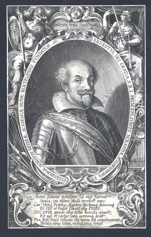 Ernst von Holstein-Schaumburg (1569-1622), engraving of 1623 by Lucas Kilian (1579-1637)